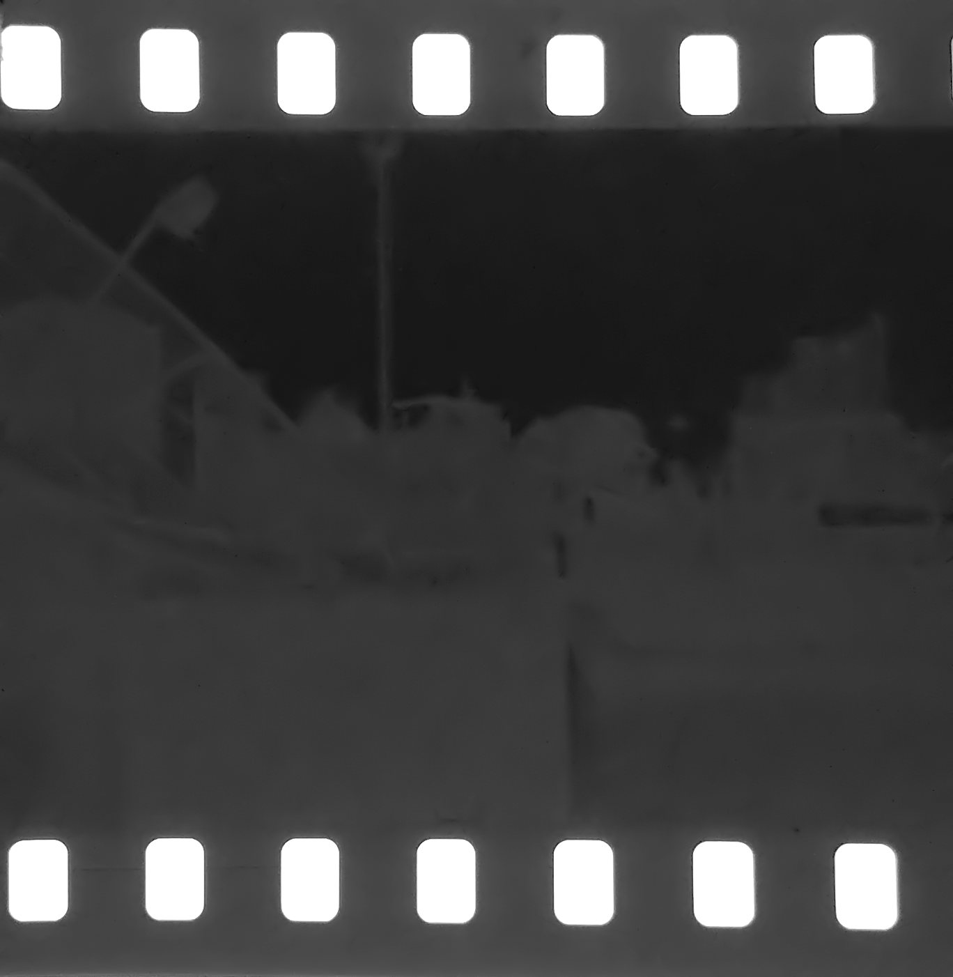 A printed-out image (i.e., one visibly formed by exposure alone, without subsequent chemical development) on a B&W film, overexposed by (approximately) 24 stops. (File name description as a latent image, which is invisible and must be chemically developed to be made visible, is incorrect.)